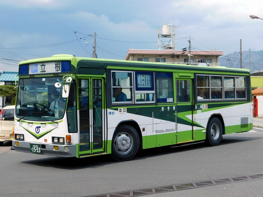 Iwateken kotsu Isuzu Cubic (KC-LV380L)